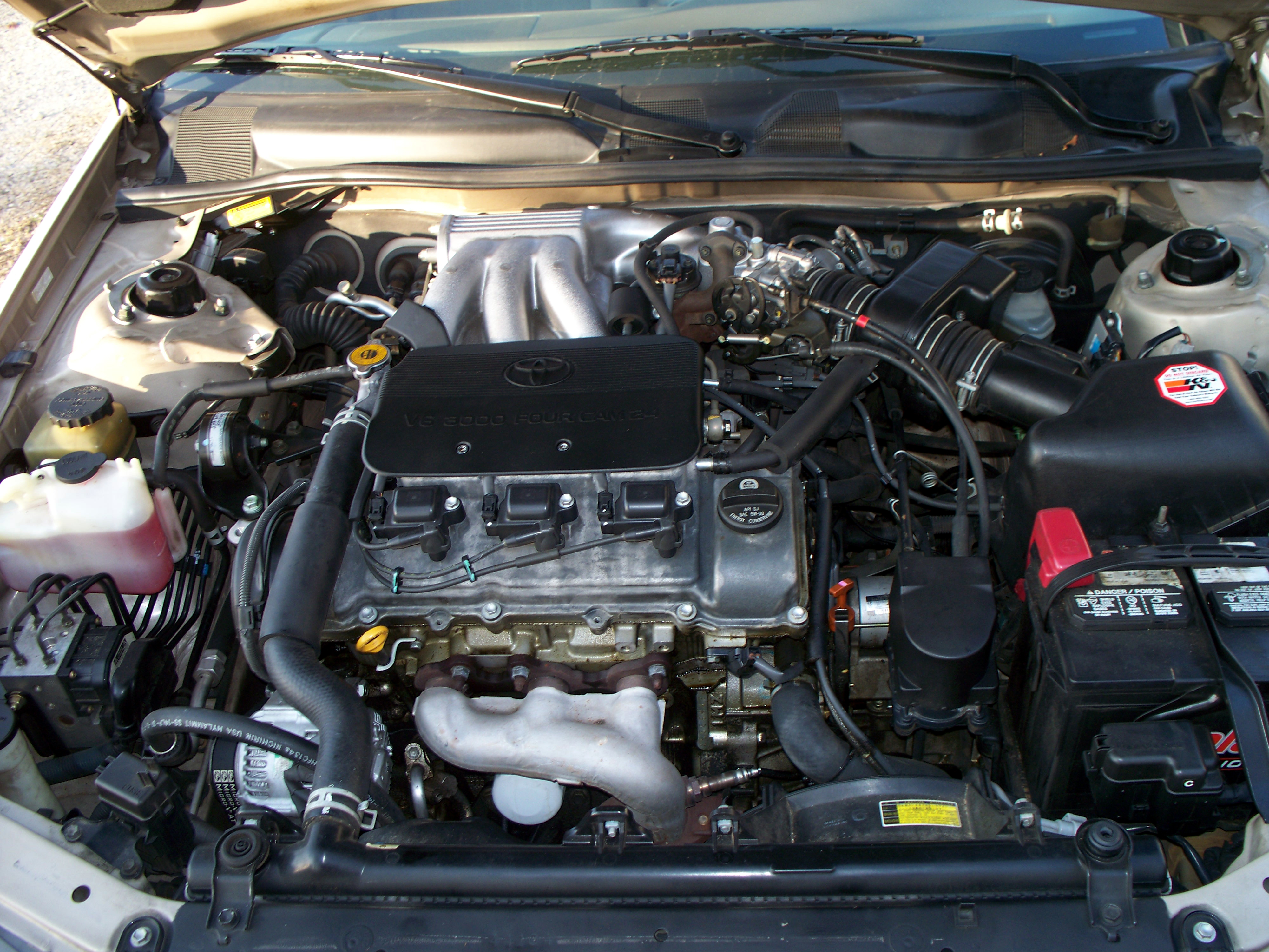 I took this photo. It is of the 1MZ-FE Engine in my 1999 Toyota Camry. I release all Rights.